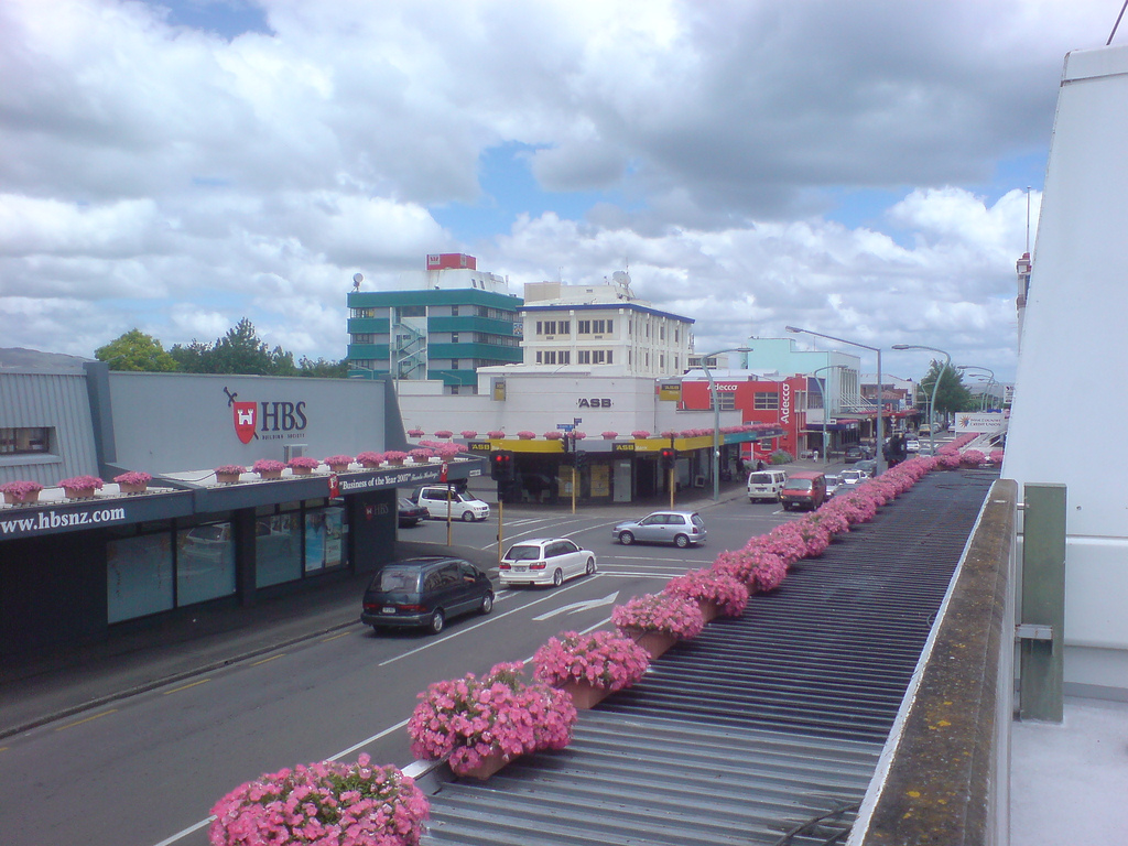 Looking along Market Street North in the Hastings CBD. First cross street is Queen Street West.